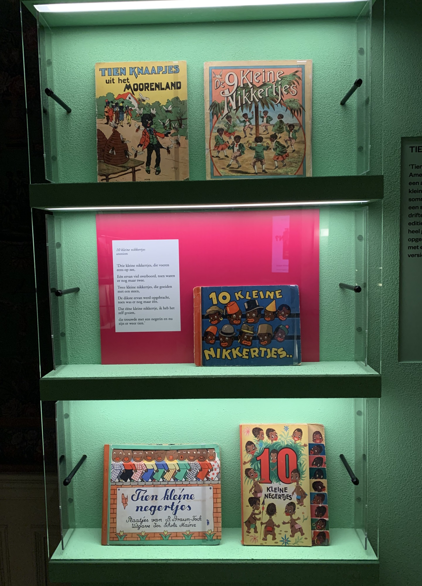 Museum Meermanno, exhibition 'Foute boeken?' ('Offensive books?').